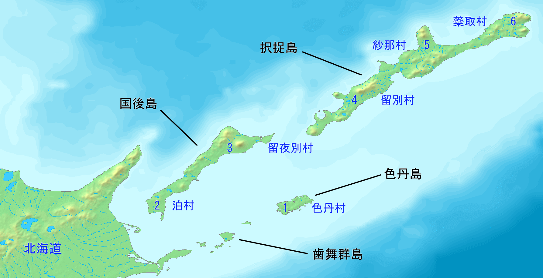 This is a Japanese language map of the Northern Territories of Japan. It includes Kunashiri, the Habomai islands, Etorofu and Shikotan. It has the Nemuro Subprefecture districts: 1. Shikotan, 2. Tomari, 3. Ruyobetsu, 4. Rubetsu, 5. Shana, 6. Shibetoro. Created with DEMIS World Map Server.